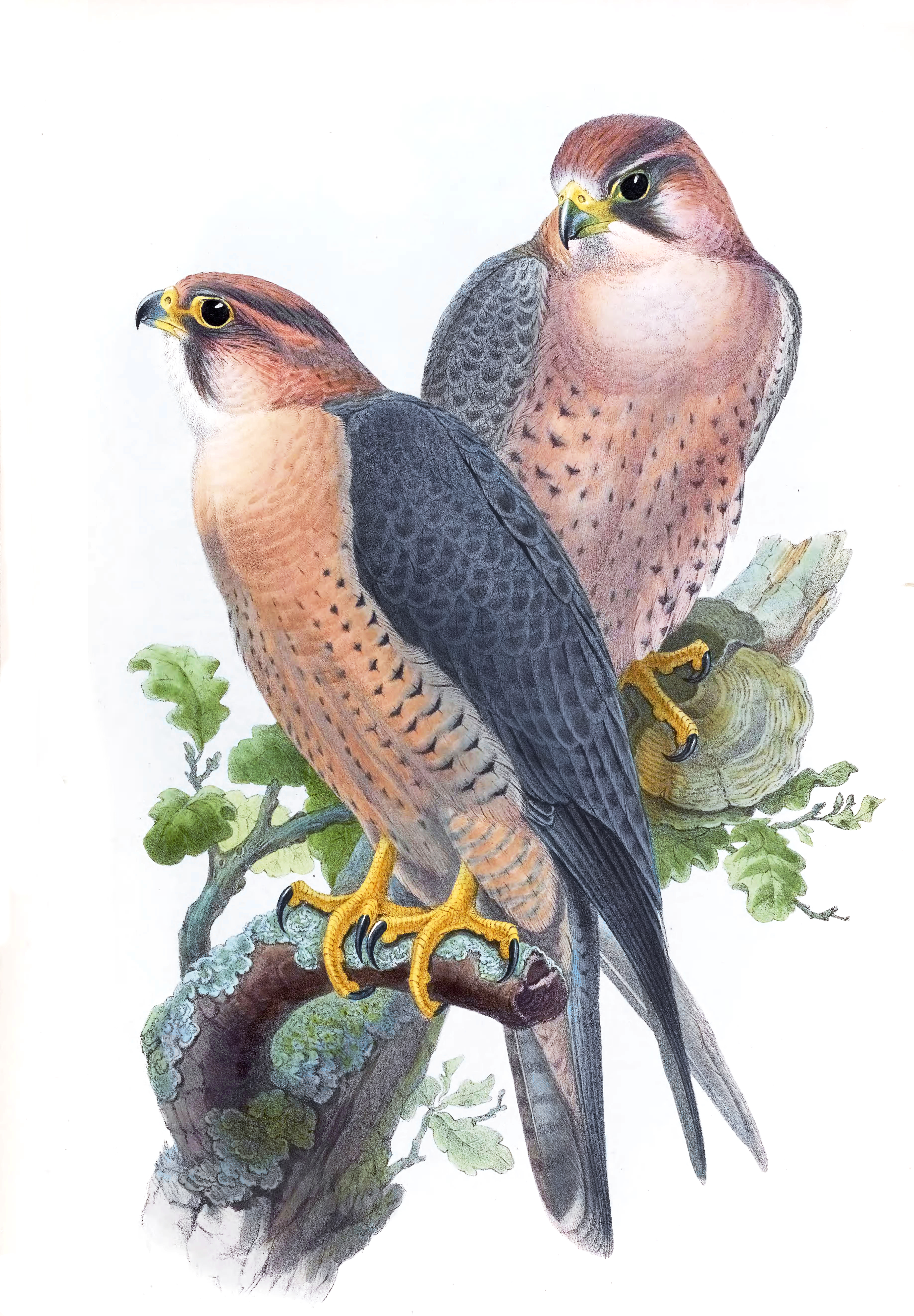 Peregrine Falcon, (Red-capped Falcon) Falco peregrinus babylonicus Sclater